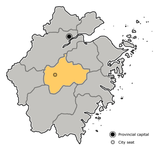 The prefecture-level city of Jinhua is highlighted on this map of Zhejiang province, People's Republic of China.